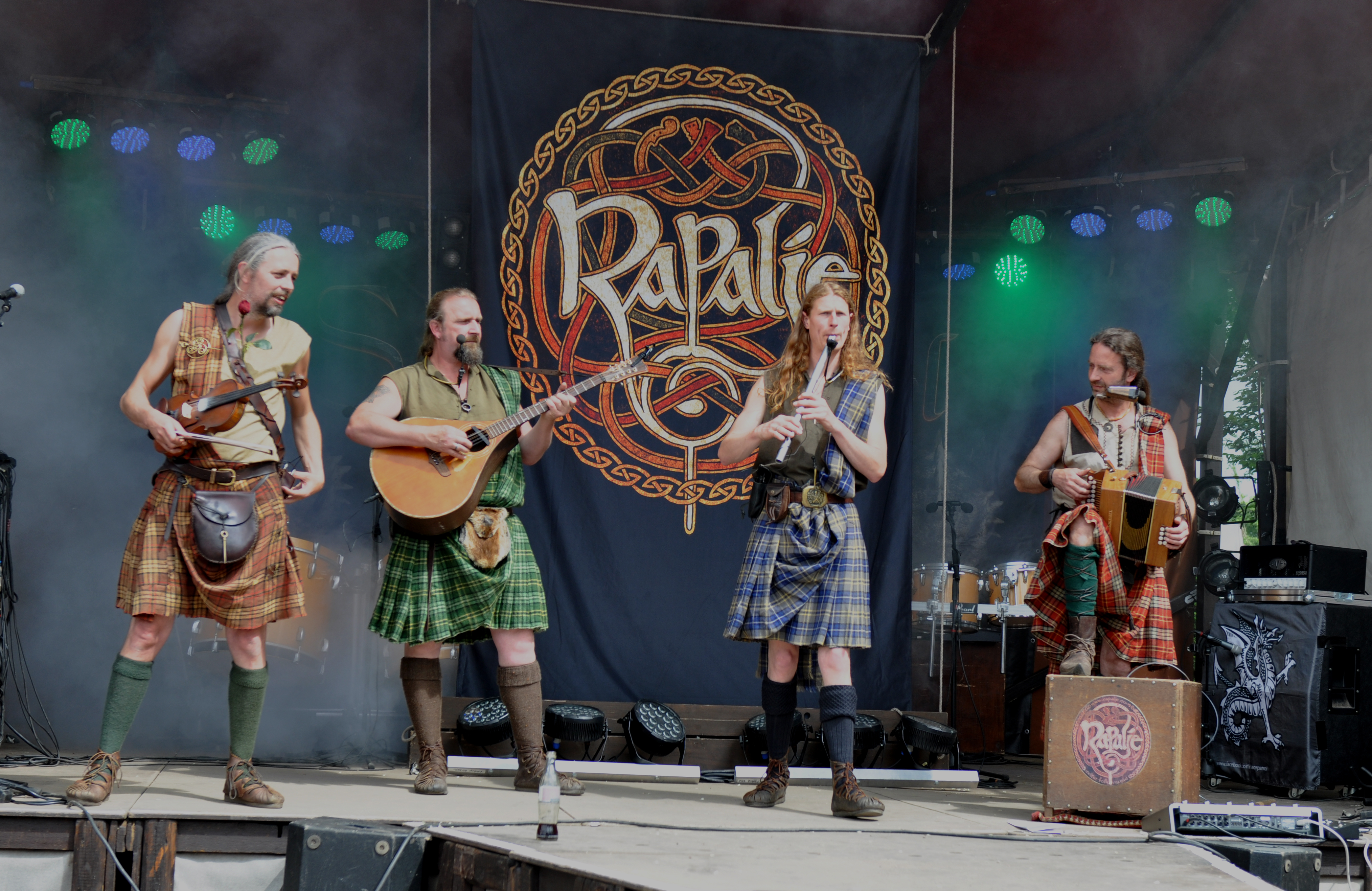 Rapalje at medieval event Mittelalterlich Phantasie Spectaculum in Wassenberg, Germany, 2014